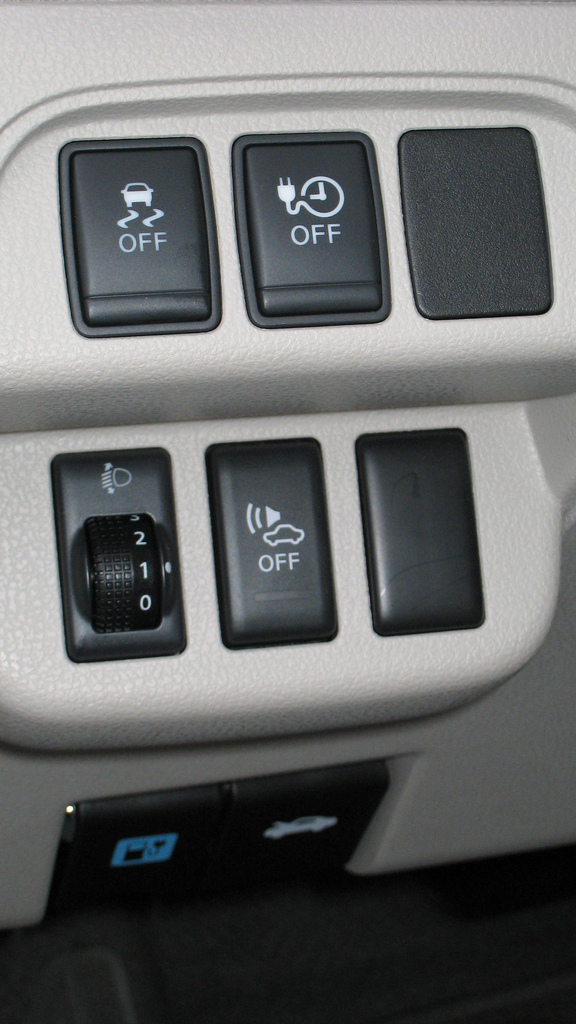 Nissan Leaf control panel showing the warning sound switch. The middle button on the bottom can turn OFF the artificial digital sound the car makes (a faint whirrr) when the Leaf is traveling under 20 MPH to alert pedestrians, the blind, and others of its presence.